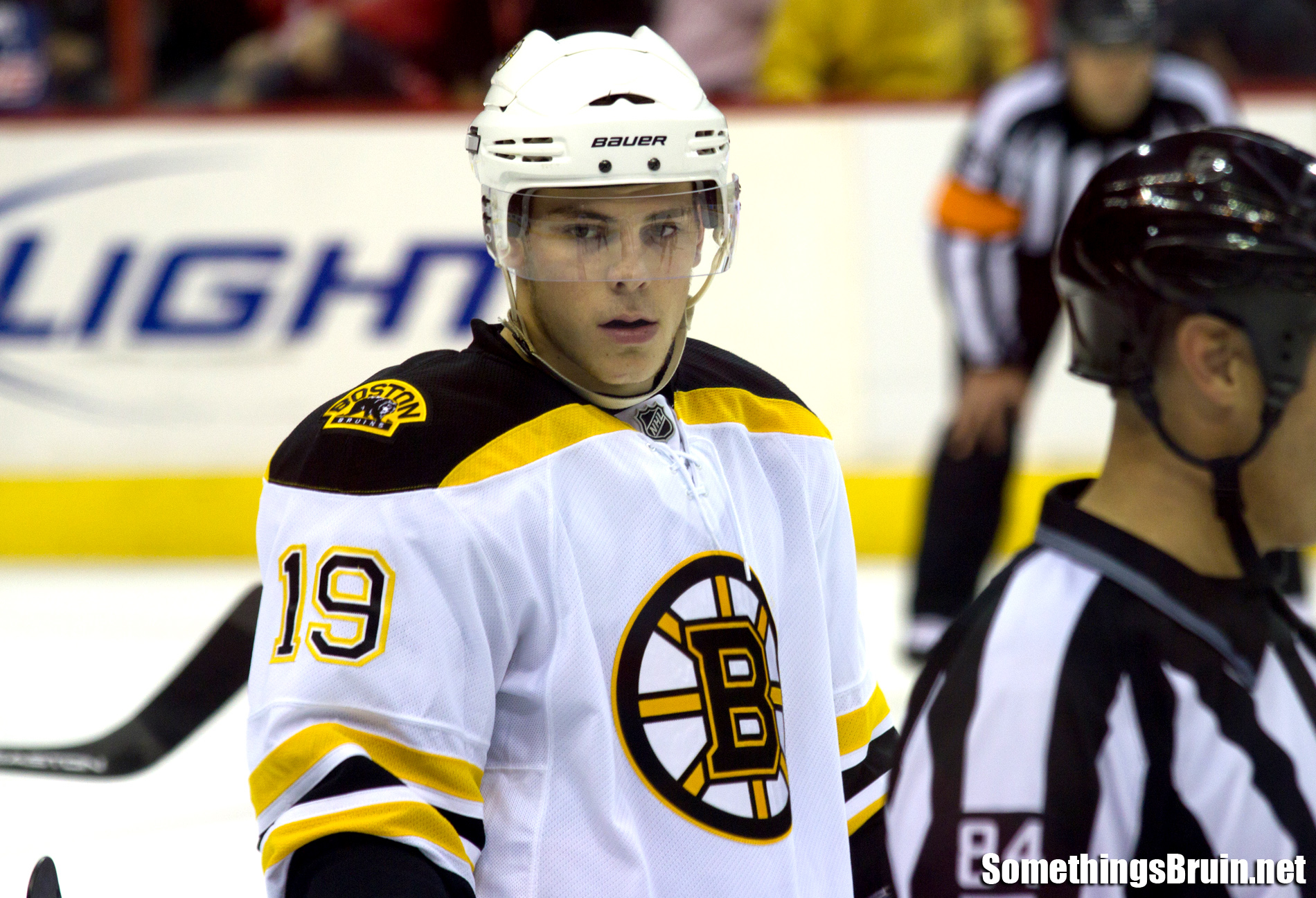 Tyler Seguin /19 Taken on November 5, 2010 Canon EOS REBEL T2i Bruins vs. Caps (Set: 27) This photo also appears in sarah_connors' photostream (3,556) Tags: tyler seguin Boston Bruins NHL hockey icehockey